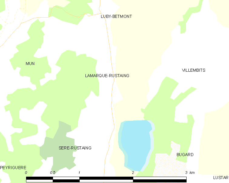 Map of French municipality